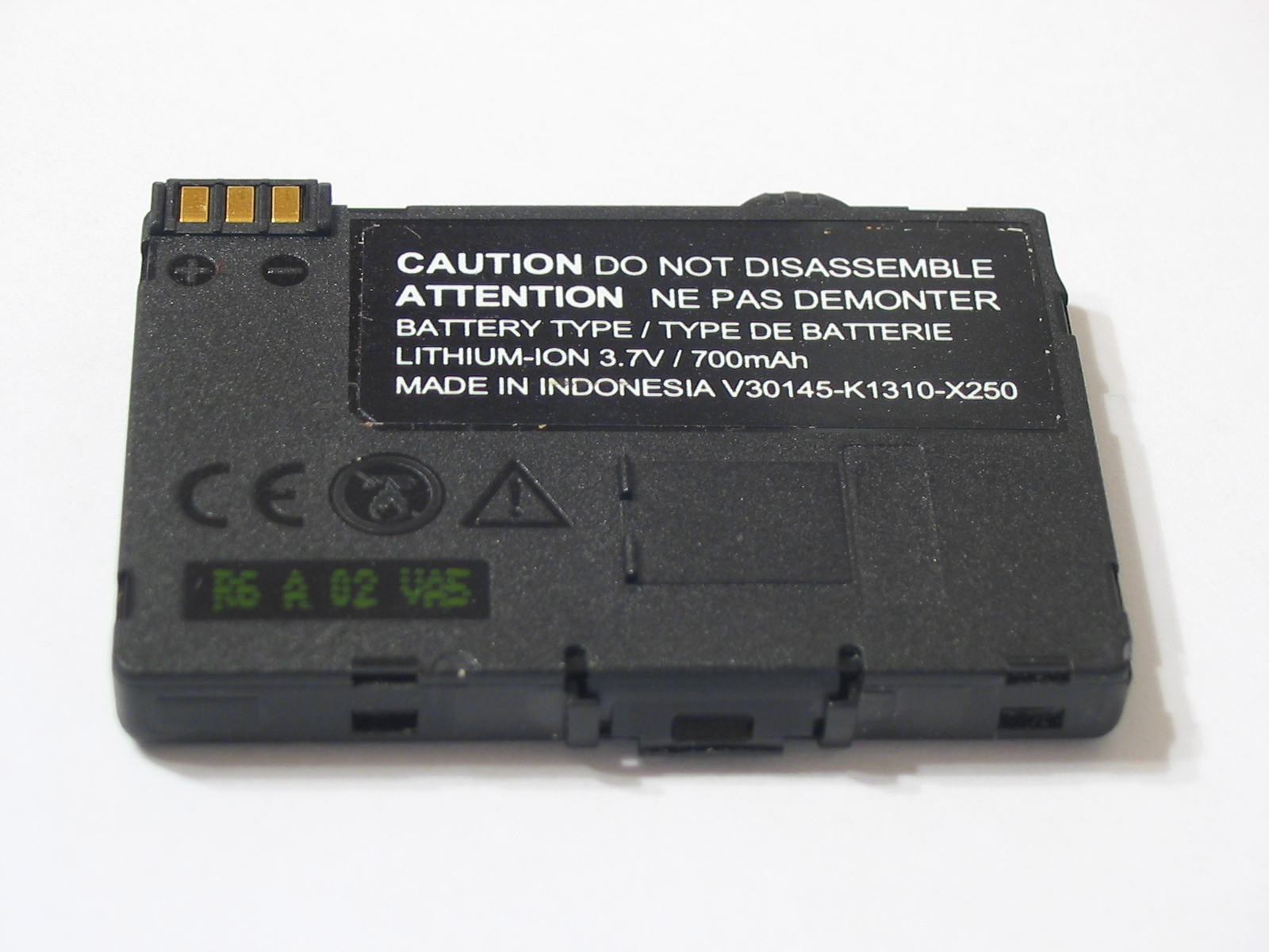 Mobile phone rechargeable battery